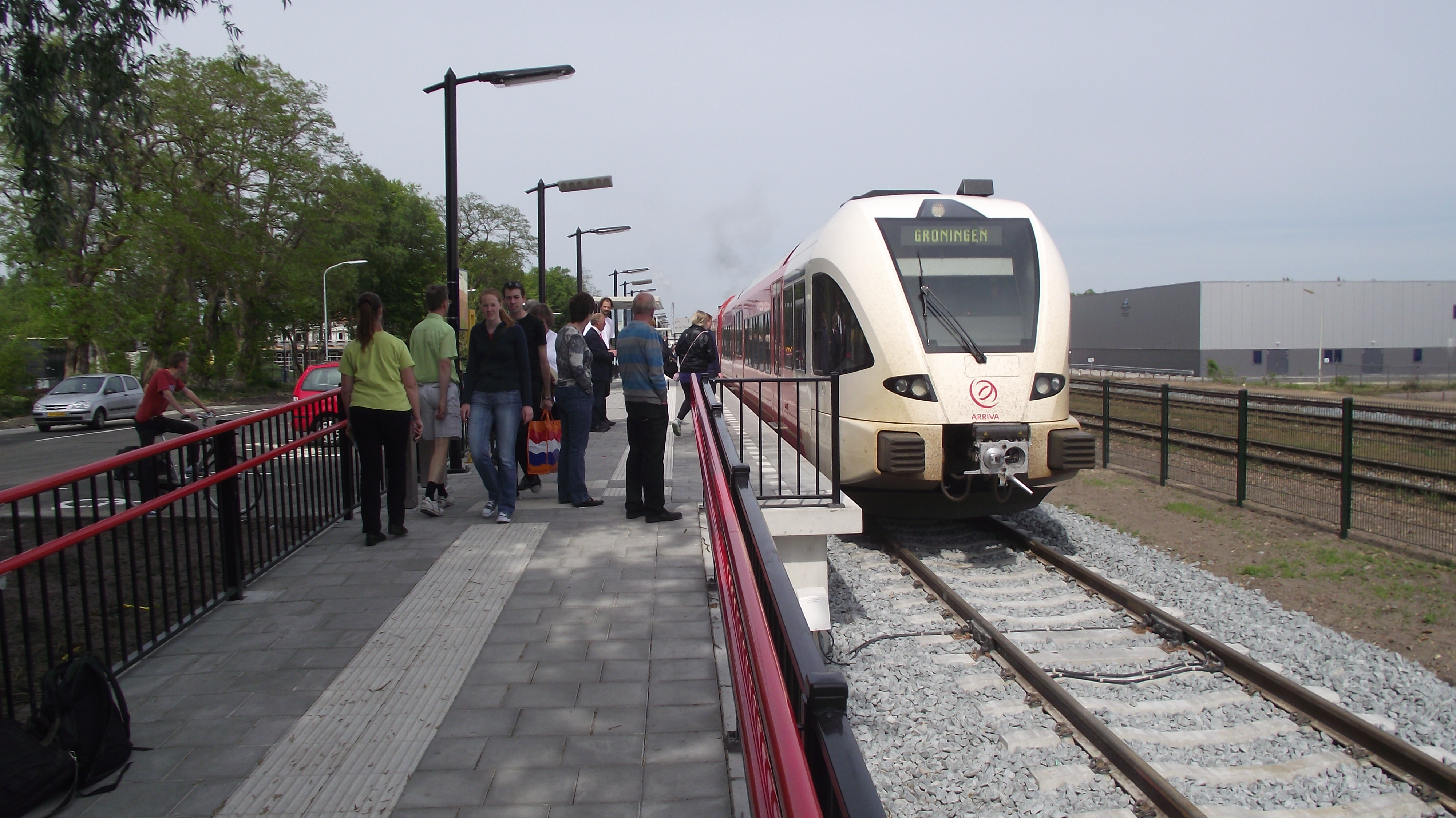 Newly opened trainstation at Veendam.